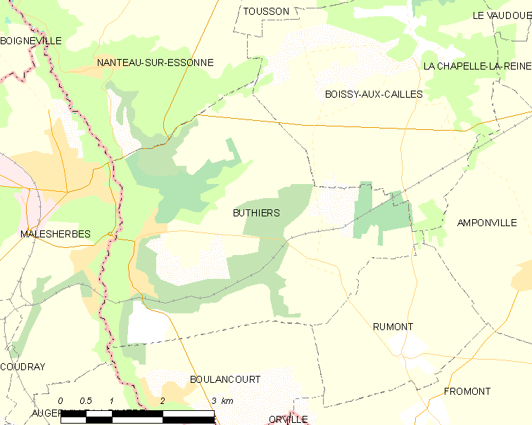 Map of French municipality Buthiers